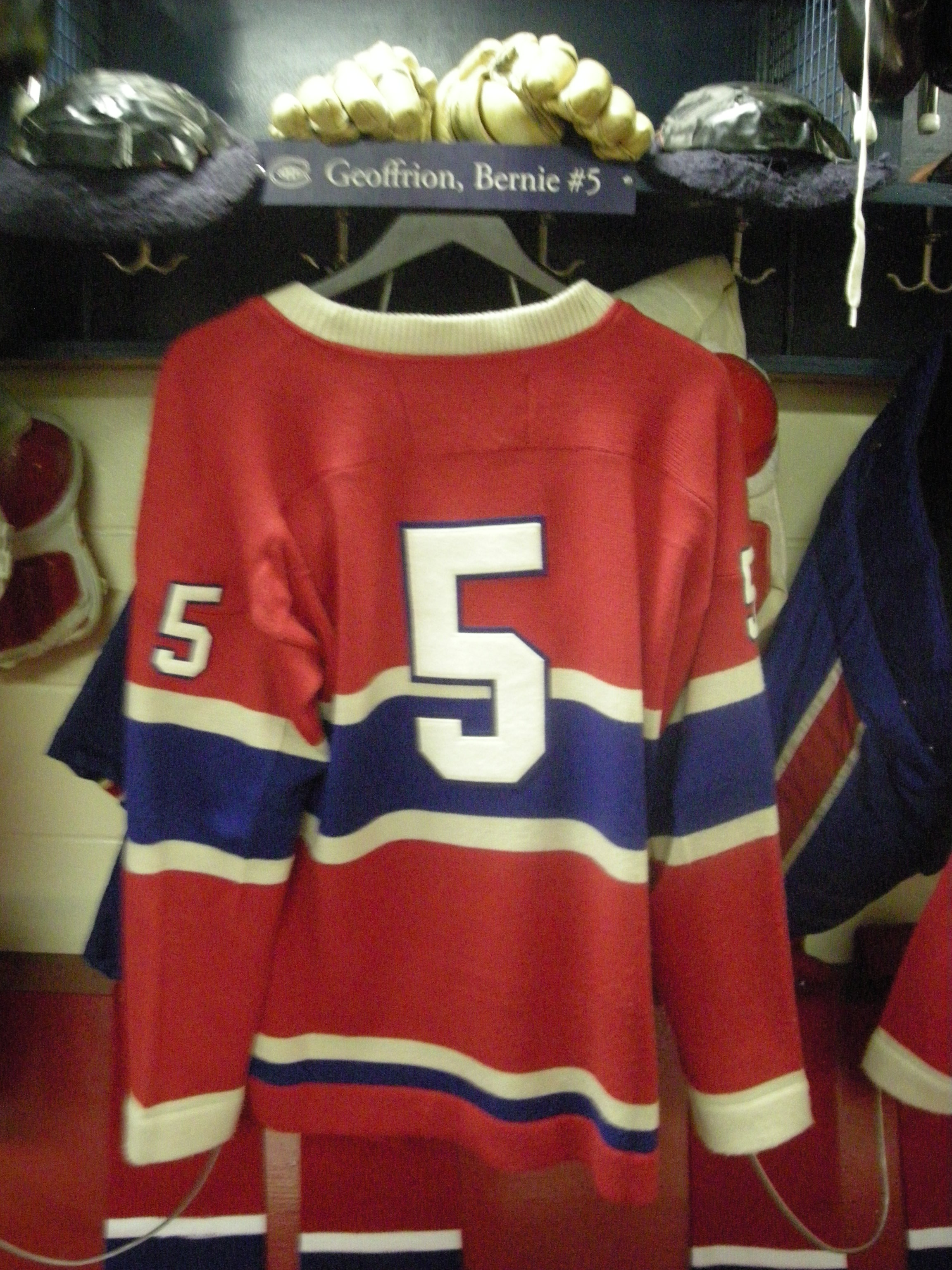 Bernie Geoffrion's jersey in the replica of the Montreal Canadiens dressing room at the Hockey Hall of Fame in Toronto, Ontario (Canada).